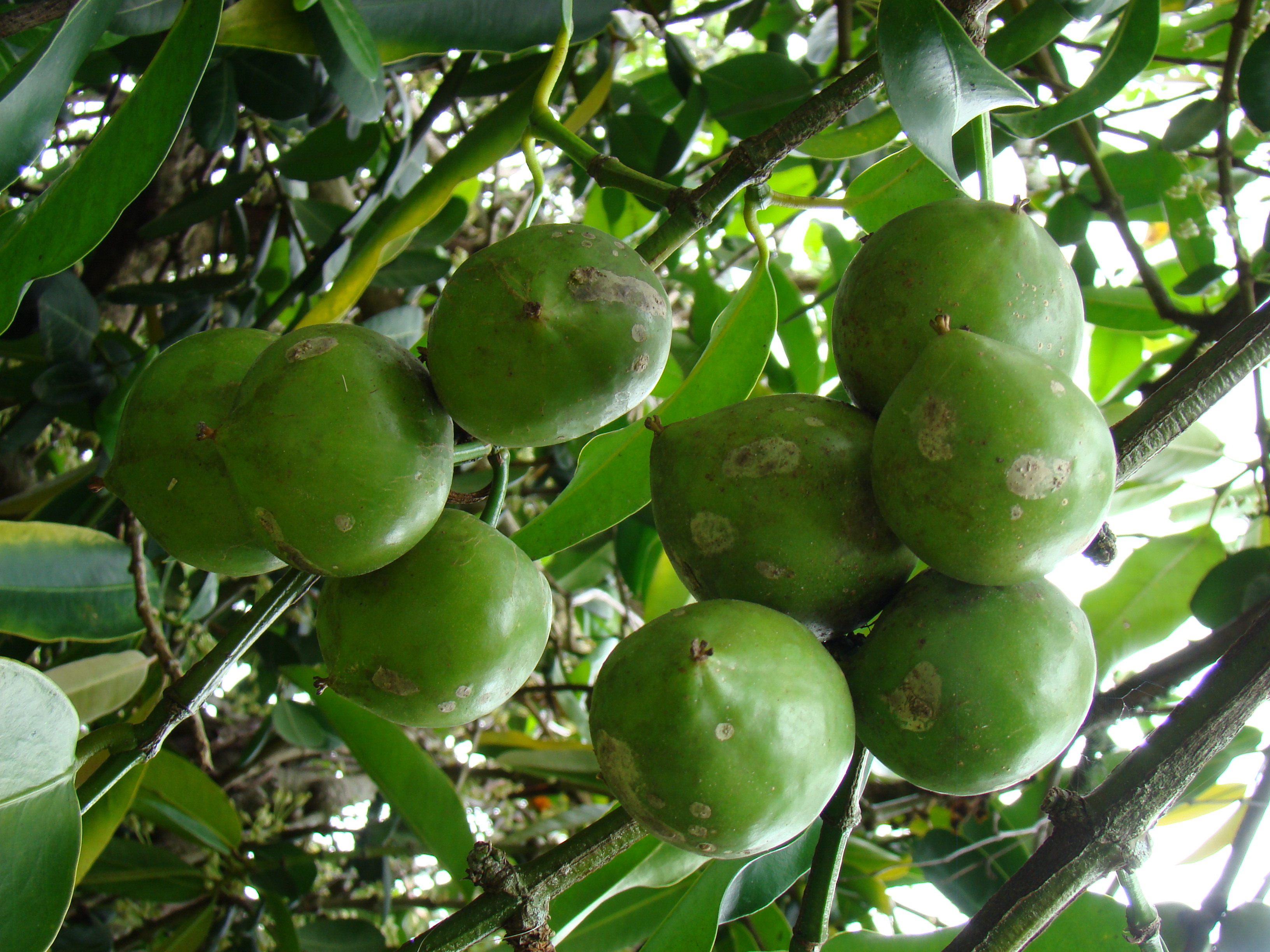 Unripe fruits are hanging from a False Mangosteen aka Gamboge (Garcinia xanthochymus / Clusiaceae) tree in the Mounts Botanical Garden, West Palm Beach, Florida.